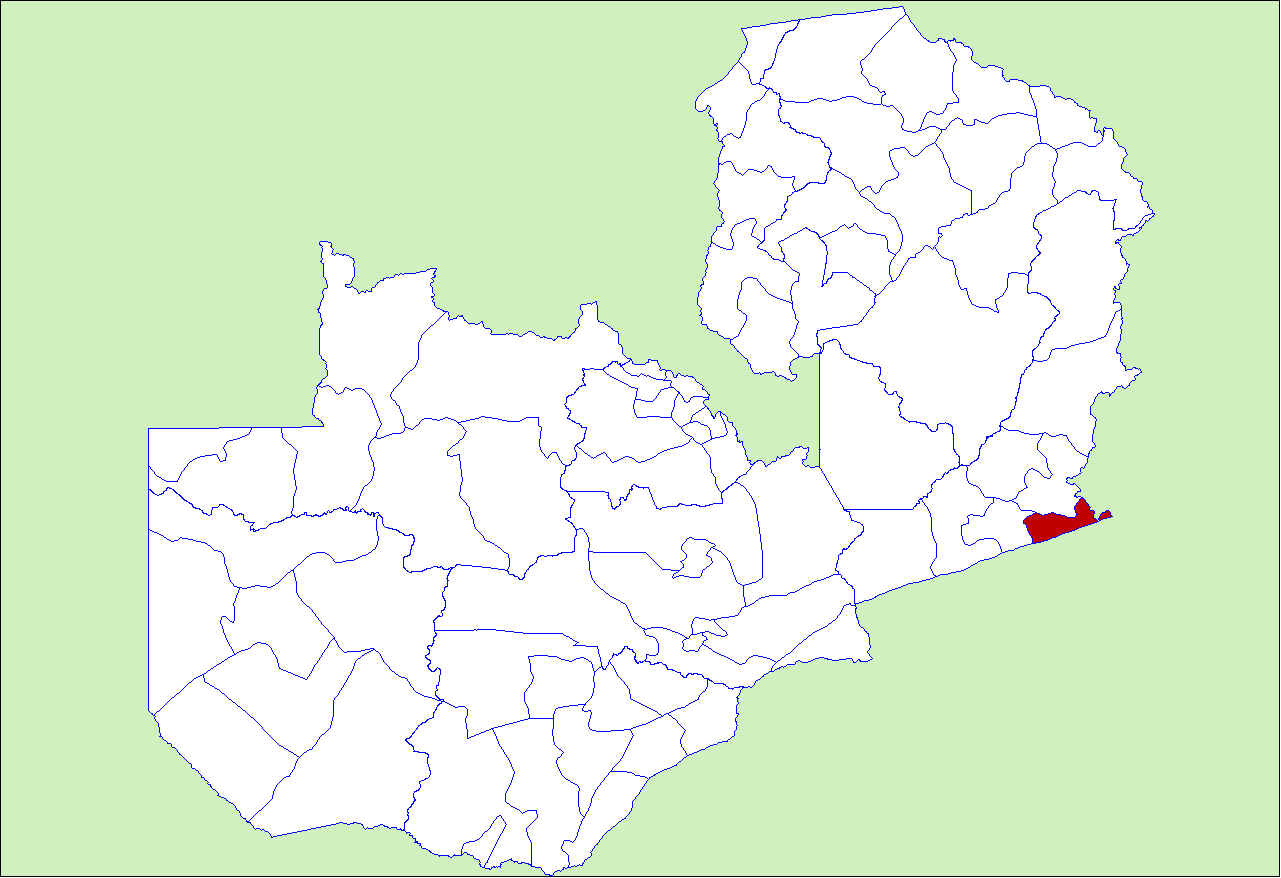 District locator in Zambia